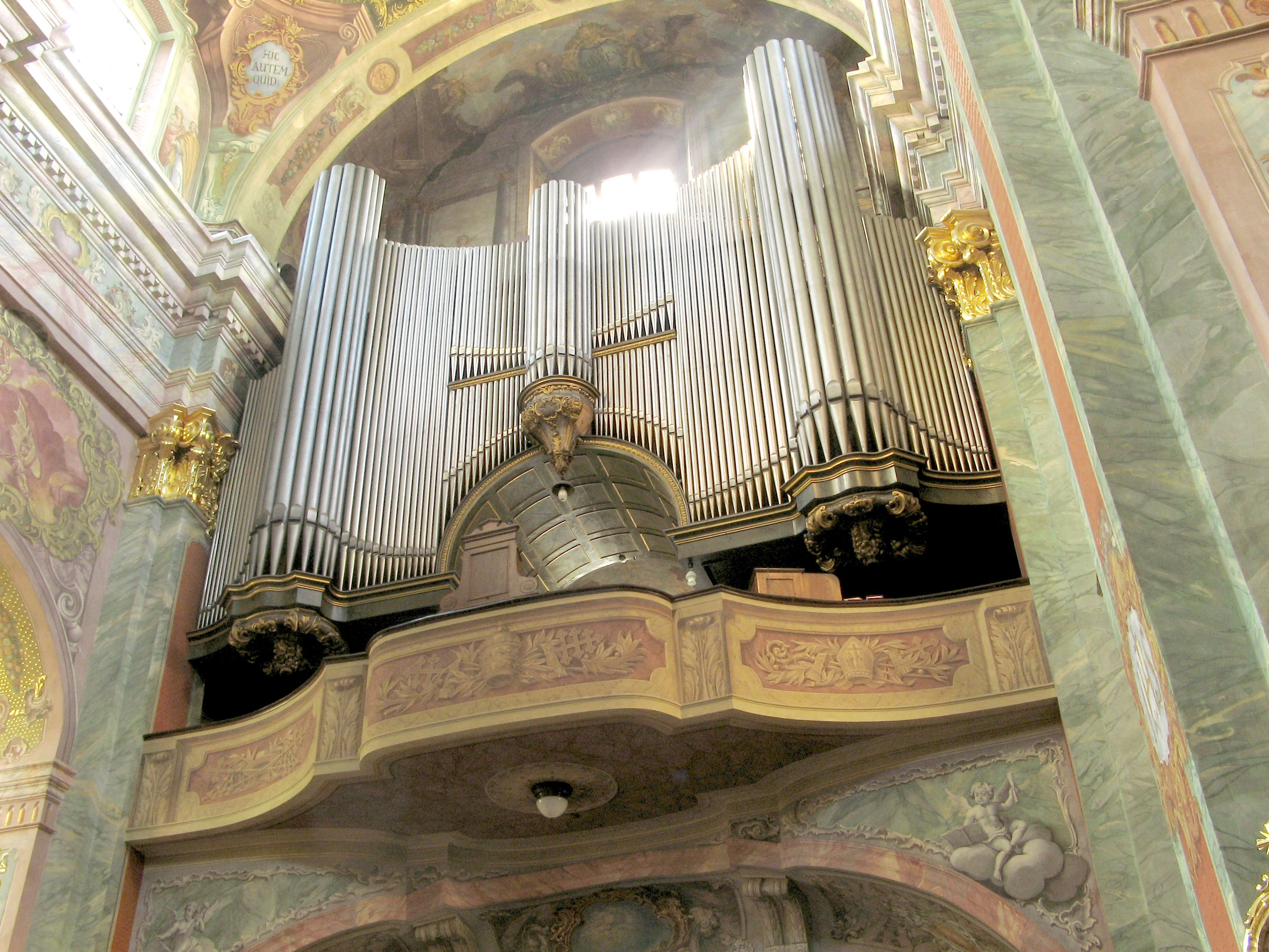 Pipe organ in the Lublin Cathedral